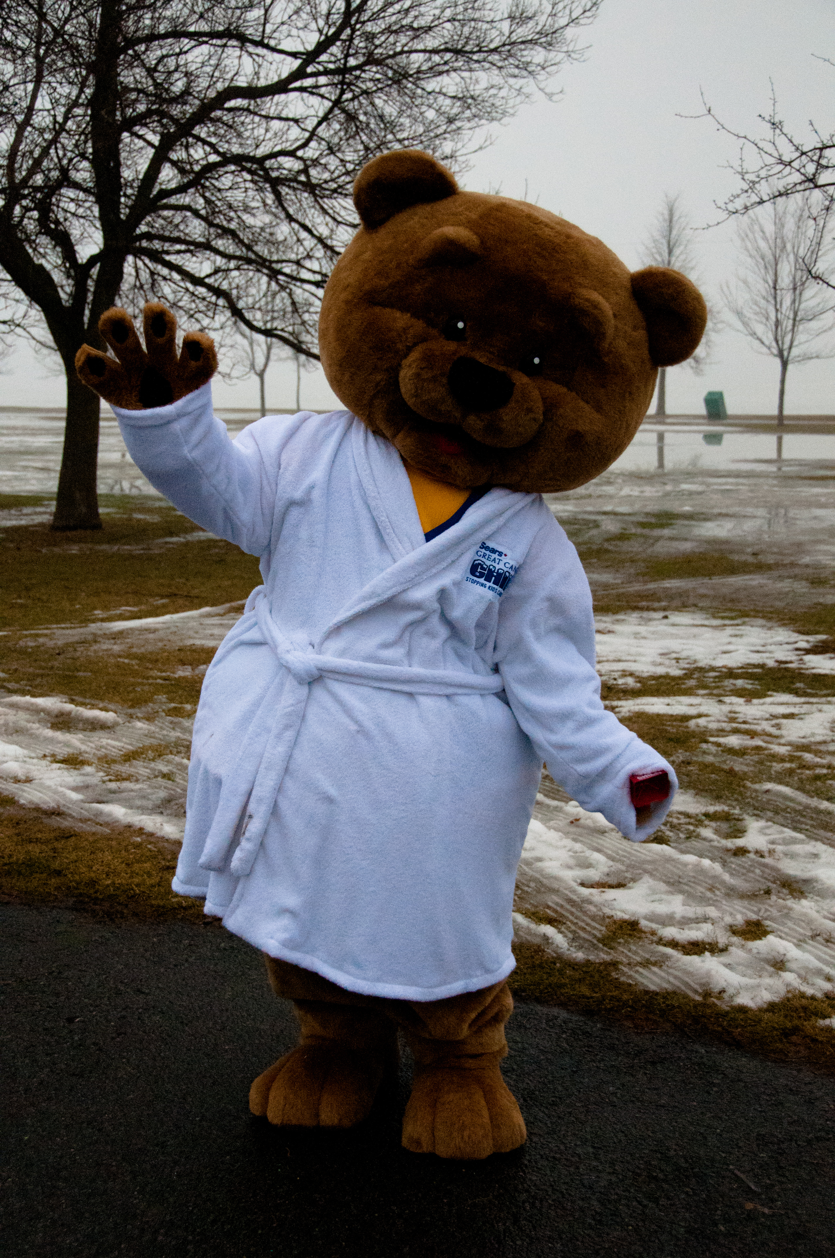 Sears mascot for the Great Canadian Chill, the polar bear dip on new year's day to raise money for children's cancer charities. Ottawa, Canada.